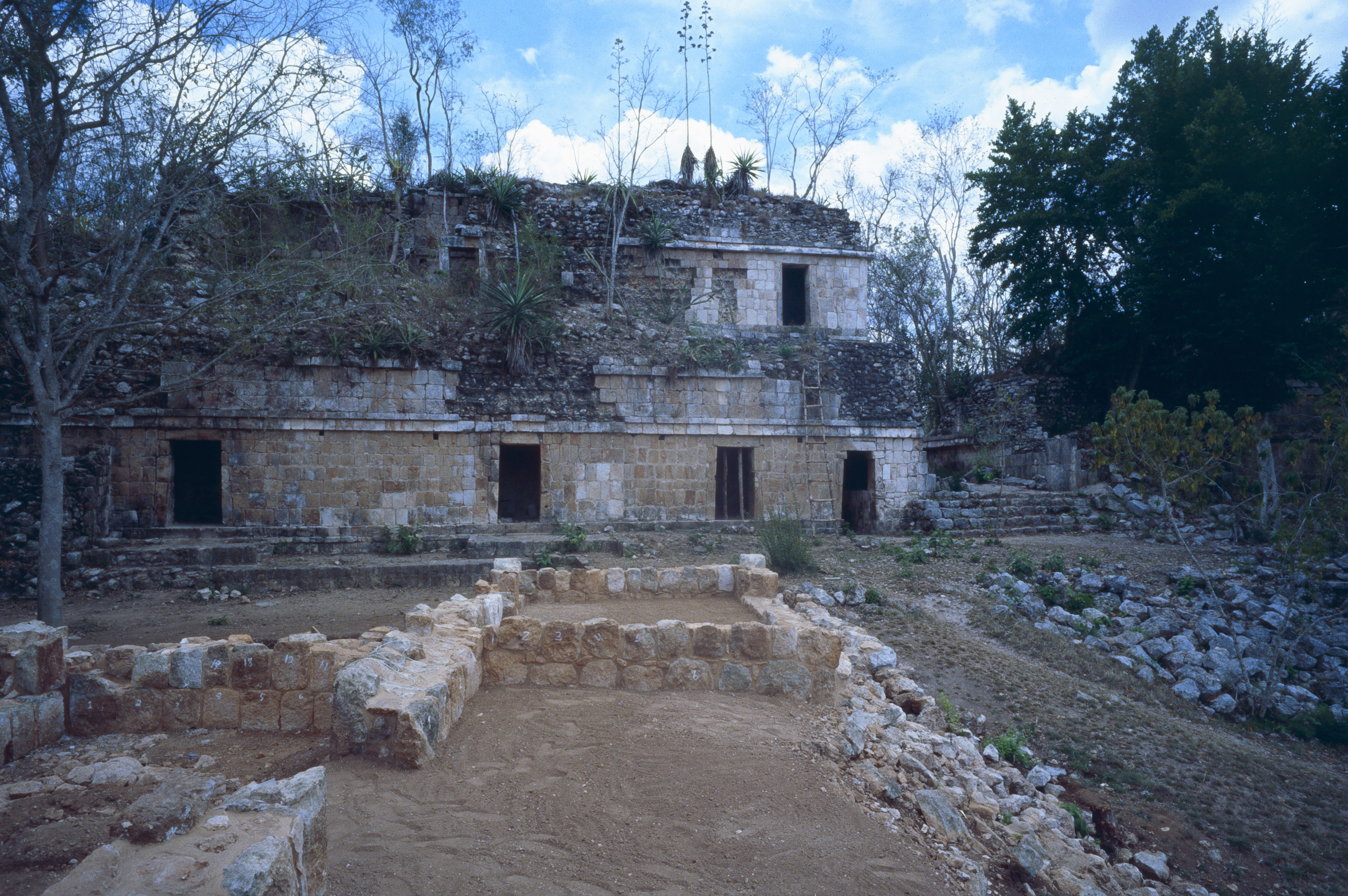 Xkipché, Yuzcatán, Mexico: Palace, west facade.